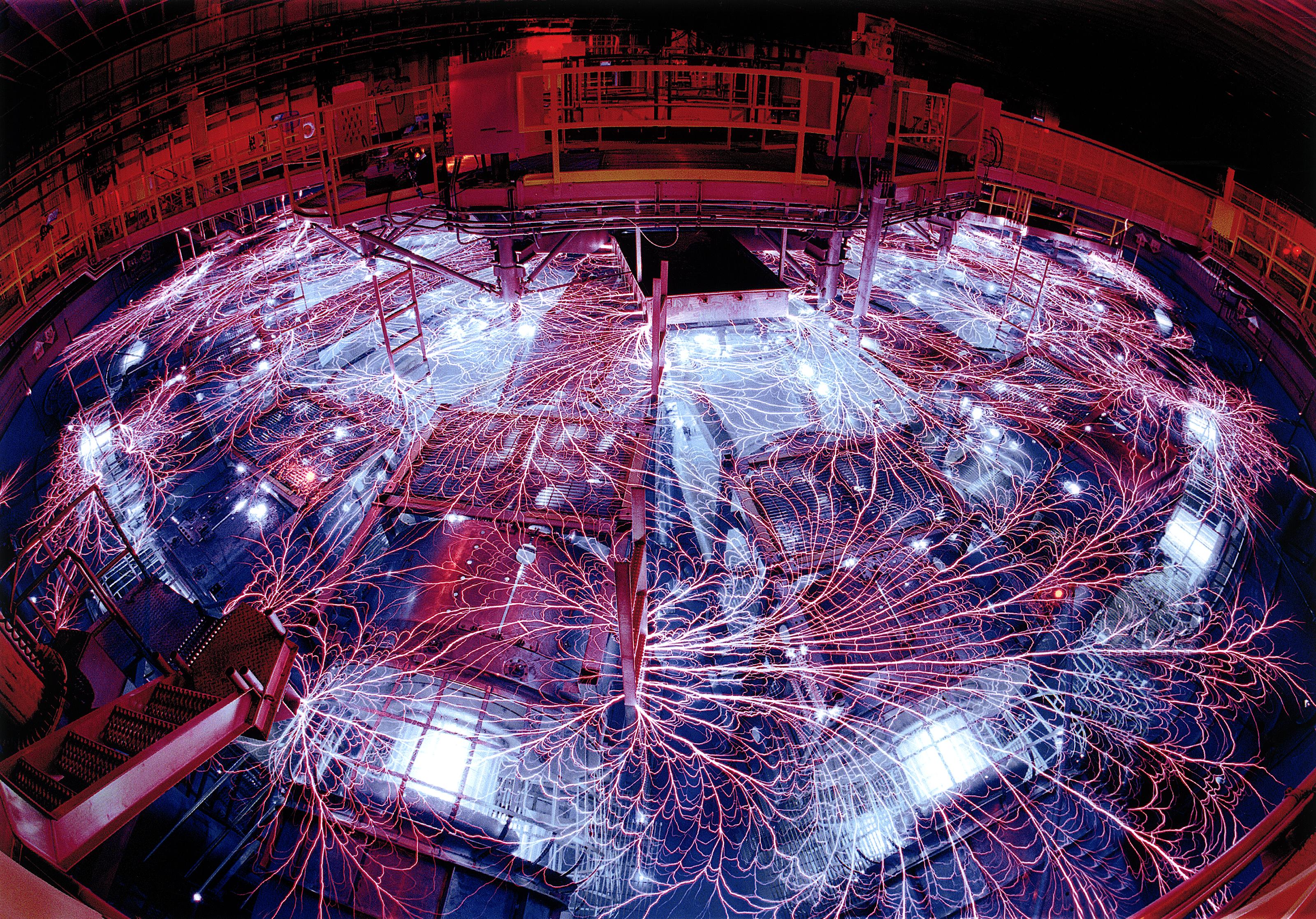 SANDIA NATIONAL LABORATORY'S Z ACCELERATOR, A PULSED POWER FACILITY IN OPERATION. A TIME-EXPOSURE PHOTOGRAPH OF ELECTRICAL FLASH-OVER ARCS PRODUCED OVER THE SURFACE OF THE WATER IN THE ACCELERATOR TANK AS A BYPRODUCTS OF Z OPERATION. THESE FLASH-OVERS ARE MUCH LIKE STROKES OF LIGHTNING. THE Z PULSED POWER ACCELERATOR AT SANDIA, WHICH BEGAN OPERATING IN SEPTEMBER, 1996, IS THE WORLD'S MOST POWERFUL AND EFFICIENT LABORATORY X-RAY SOURCE. IT IS A MODIFIED VERSION OF THE PBFA II ACCELERATOR WHICH WAS USED UNTIL 1996 FOR LIGHT ION FUSION RESEARCH. For more information or additional images, please contact 202-586-5251.